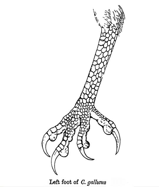 Foot of Circaetus gallicus (Short toed Eagle)